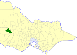 Location of the former Shire of Arapiles within Victoria.